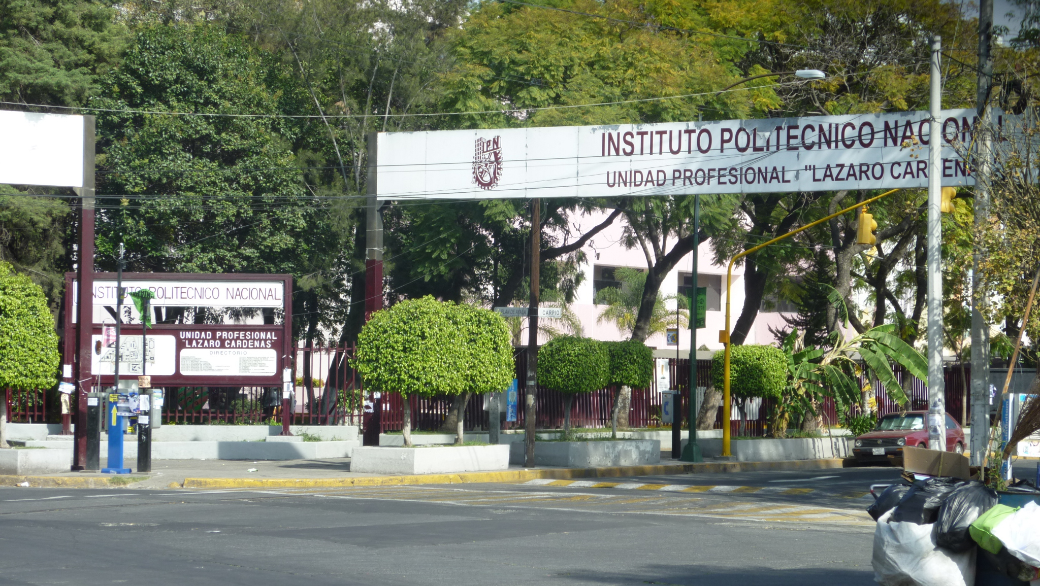 View of the southwest entrance to the “Unidad Profesional Lázaro Cárdenas” of the “Instituto Politecnico Nacional”, located in the area of Casco de Santo Tomas in Mexico City.